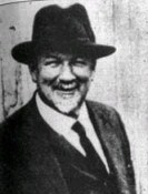 Jakob Künzler was known as the "Father of Armenian Orphans." With an invitation from Protestant missionary Johannes Lepsius, he visited Urfa and was his assistant. With the start of World War I, Künzler was heavily preoccupied by providing medical assistance to the needy.[73] During his time in the Ottoman Empire, Künzler with his wife Elisabeth helped the destitute and wounded Armenian orphans in the Syrian desert. He was especially involved with the Near East Foundation and is known to have saved thousands of Armenian lives. In his memoirs, In the Land of Blood and Tears, Künzler recounts the massacres he had witnessed in Ottoman Turkey and especially in Urfa.